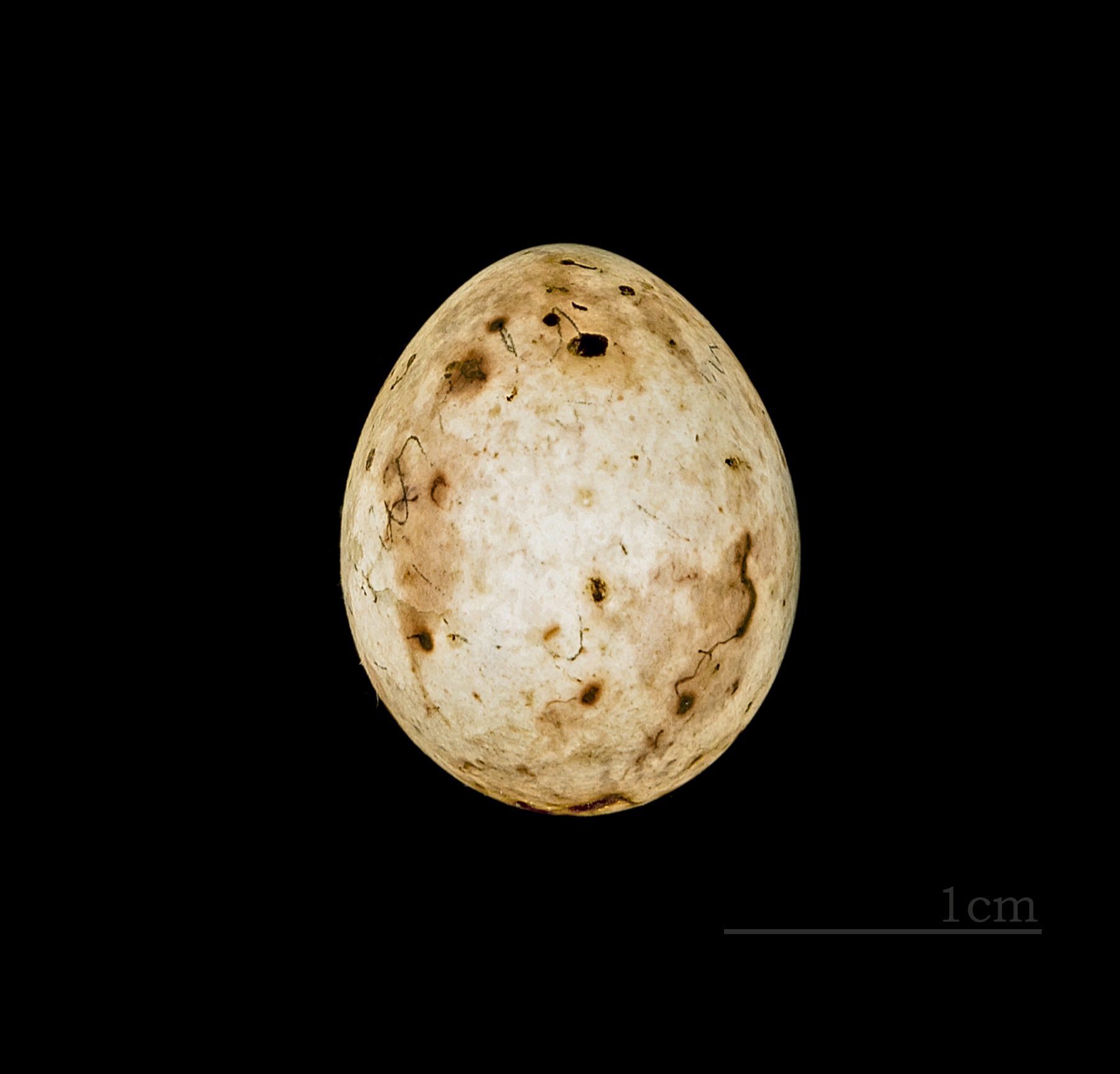 Egg of Yellow-browed Bunting. Collection of Jacques Perrin de Brichambaut.